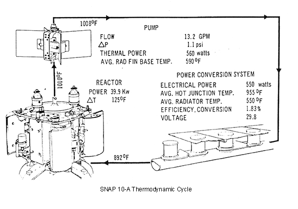 SNAP-10A Thermodynamic cycle